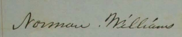 Norman Williams signature from the Franklin House Hotel Guest Register. He stayed at the hotel Jan. 22, 1855. Franklin House Hotel Guest Register Sept 1854 - April 1855 from the private collection of H. Blair Howell.